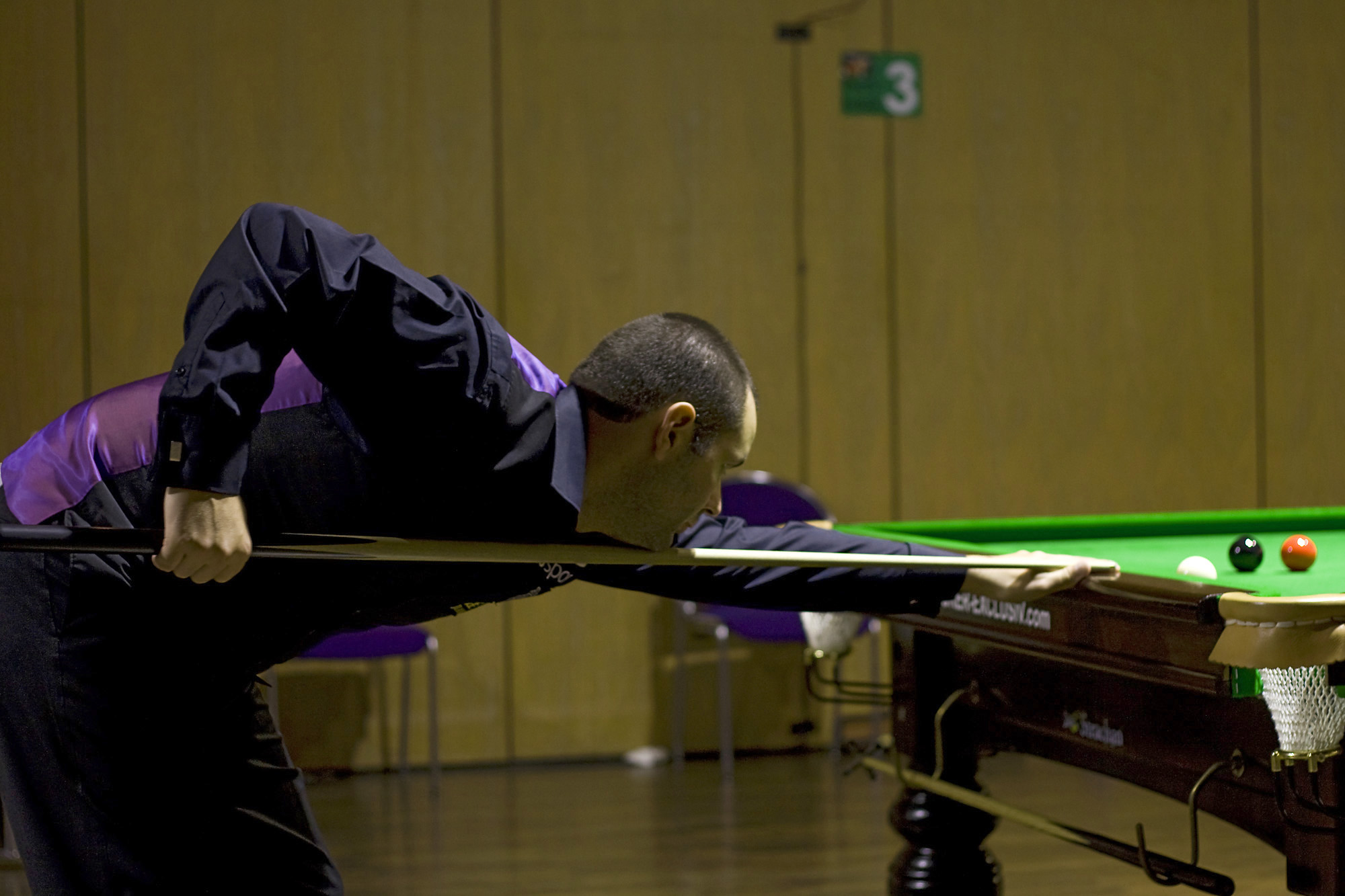 Stephen Maguire at the Paul Hunter Classic 2009